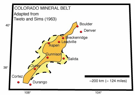 Outline of state of Colorado (USA) with approximate reproductions of the two versions of the Colorado Mineral Belt that were suggested by Tweto and Sims (Precambrian Ancestry of the Colorado Mineral Belt, Geological Society of America Bulletin 74, p. 991-1014, 1963). The principal mining districts of Laramide age are in the inner area bounded by solid lines and in a darker color. The "Maximum boundary" is shown by the dashed lines.